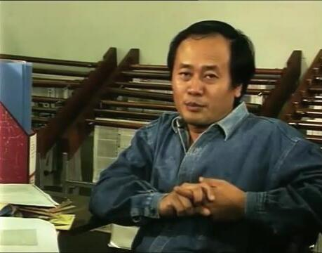 Eka Budianta in Lontar Foundation film on Suman Hs (at 02.21)